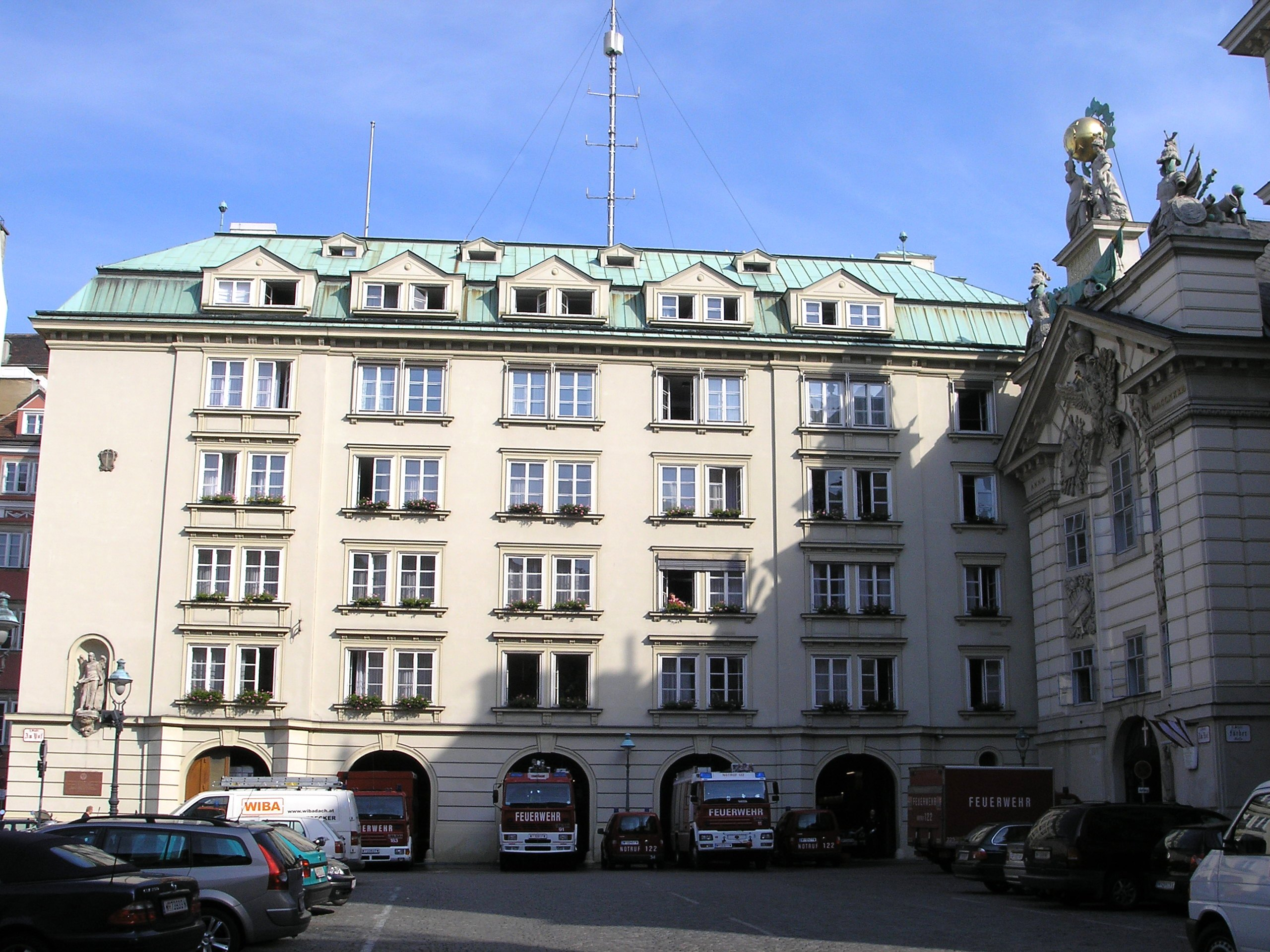 Firestation with engines, at Am Hof square in Vienna.